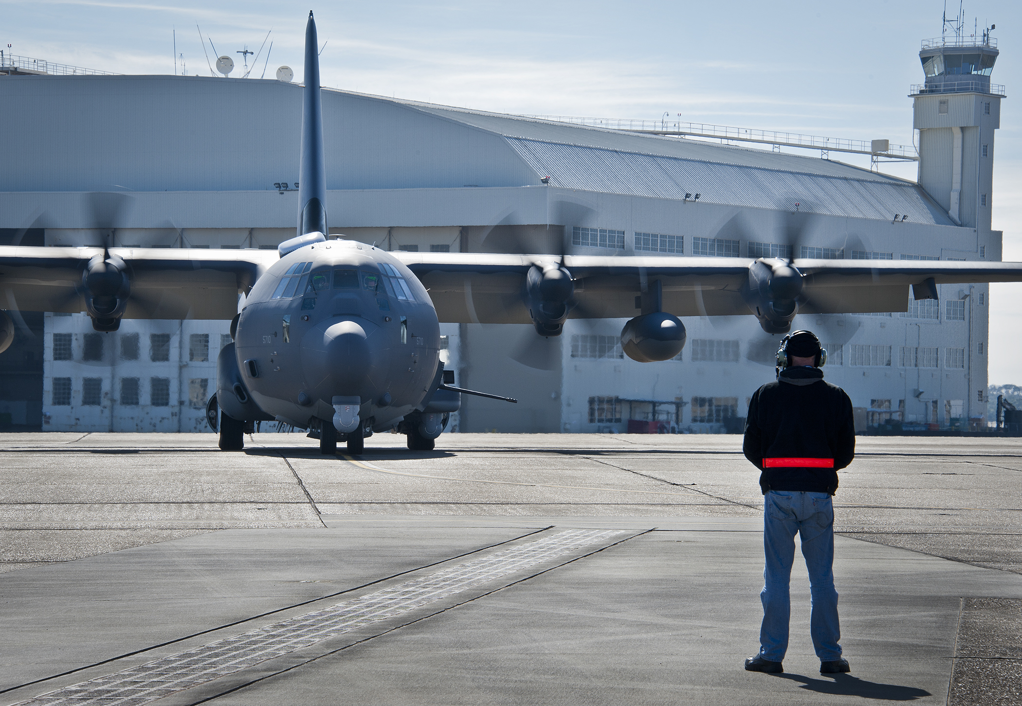 Dave King, of Lockheed Martin, prepares to marshal out the AC-130J Ghostrider for its first official sortie Jan. 31 at Eglin Air Force Base, Fla. The Air Force Special Operations Command MC-130J arrived at Eglin in January 2013 to begin the modification process for the AC-130J, whose primary mission is close air support, air interdiction and armed reconnaissance. A total of 32 MC-130J prototypes will be modified as part of a $2.4 billion AC-130J program to grow the future fleet. (U.S. Air Force photo/Chrissy Cuttita) Unit: Eglin Air Force Base